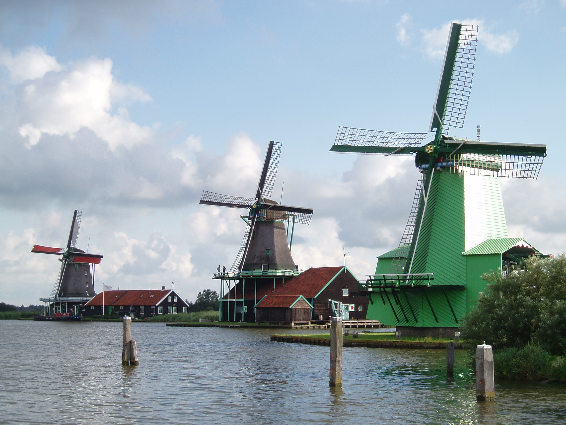 Windmills in village Zaanse Schans in the municipality of Zaanstad in the Netherlands, in the province of North Holland.